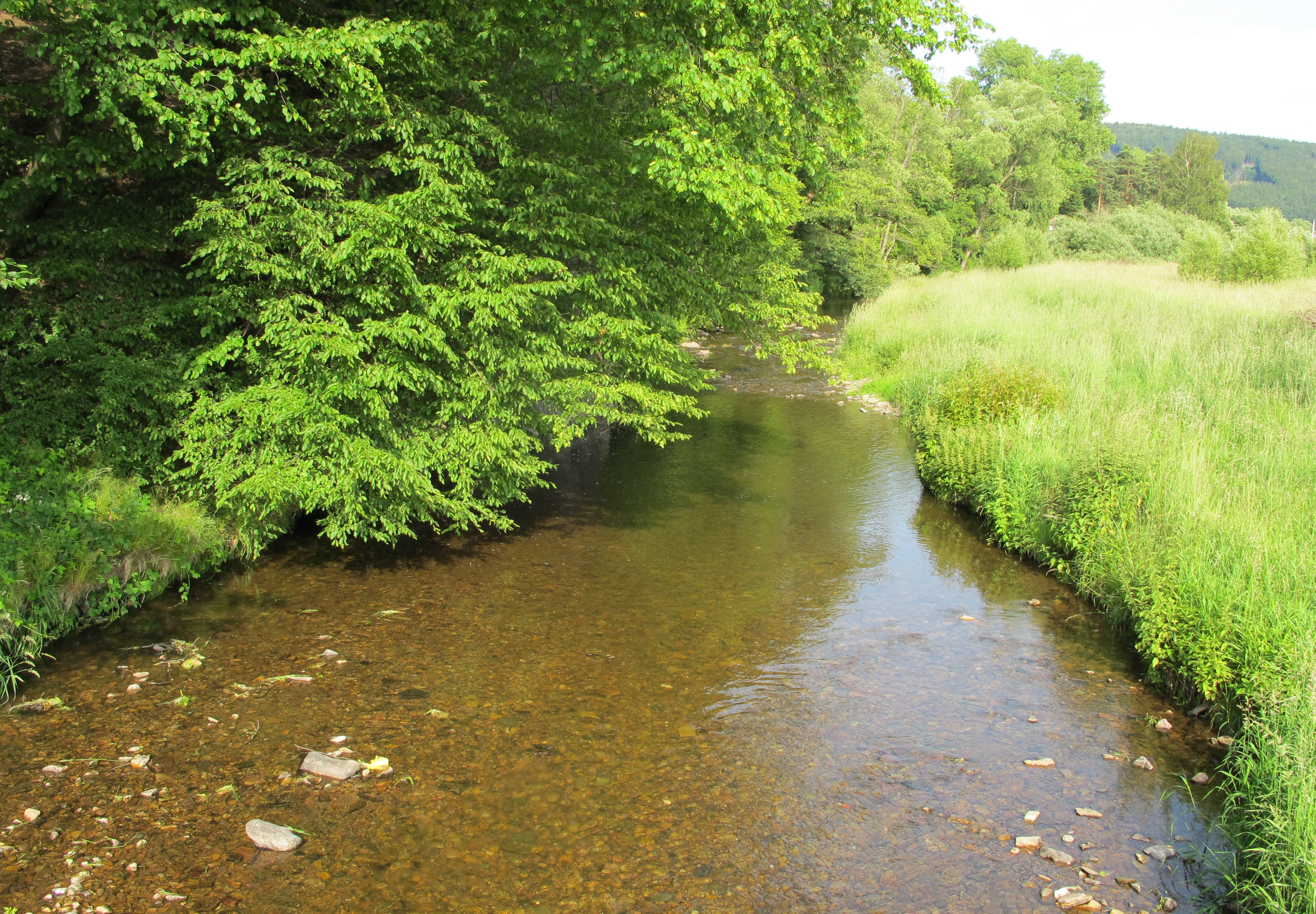 River Litavka in Jince in Příbram District